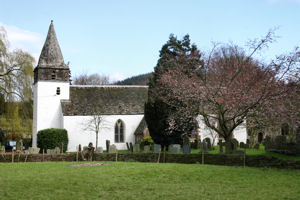 Photo of St Peters Church, Dixton